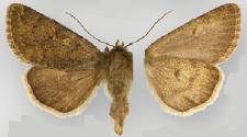 Lasionycta brunnea female